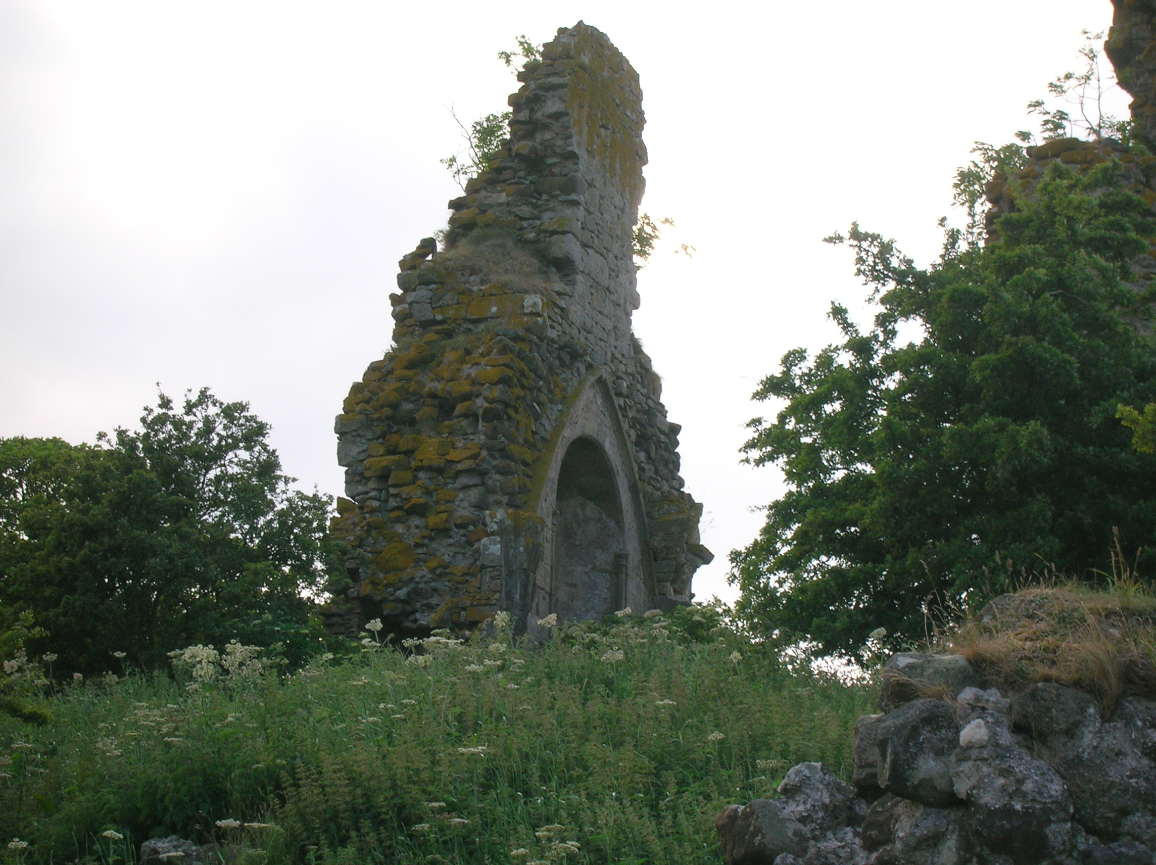 Craigie Castle, Riccarton, East Ayrshire, Scotland. The Keep - East view.